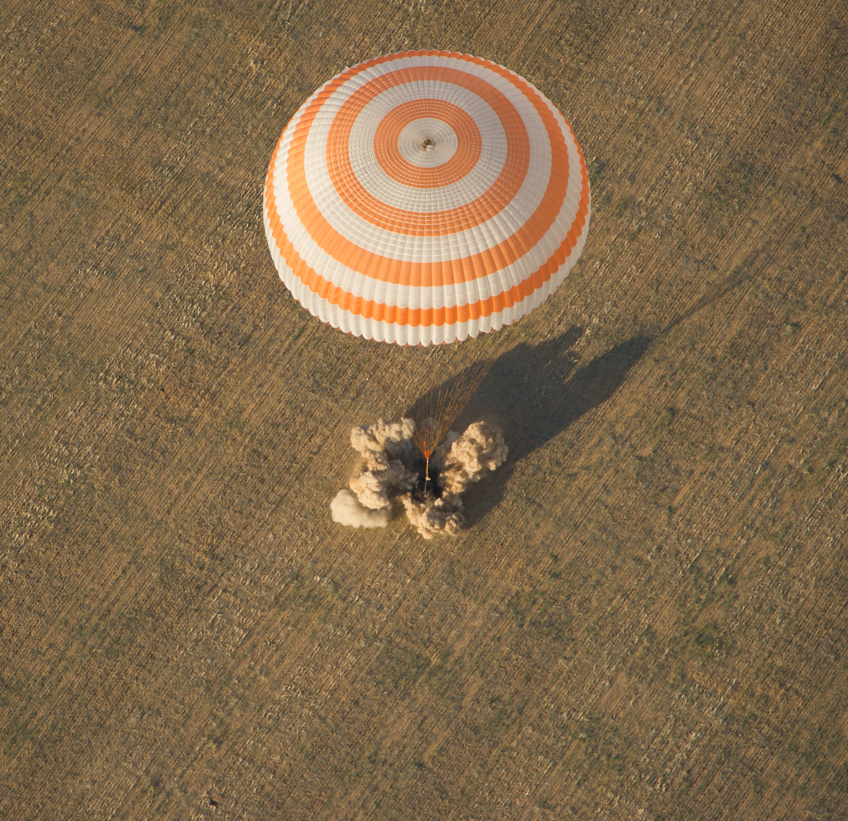 The Soyuz TMA-04M spacecraft is seen as it lands with Expedition 32 Commander Gennady Padalka of Russia, NASA Flight Engineer Joe Acaba and Russian Flight Engineer Sergei Revin in a remote area near the town of Arkalyk, Kazakhstan, on Sept. 17, 2012 (Kazakhstan time). Padalka, Acaba and Revin returned from five months onboard the International Space Station where they served as members of the Expedition 31 and 32 crews.